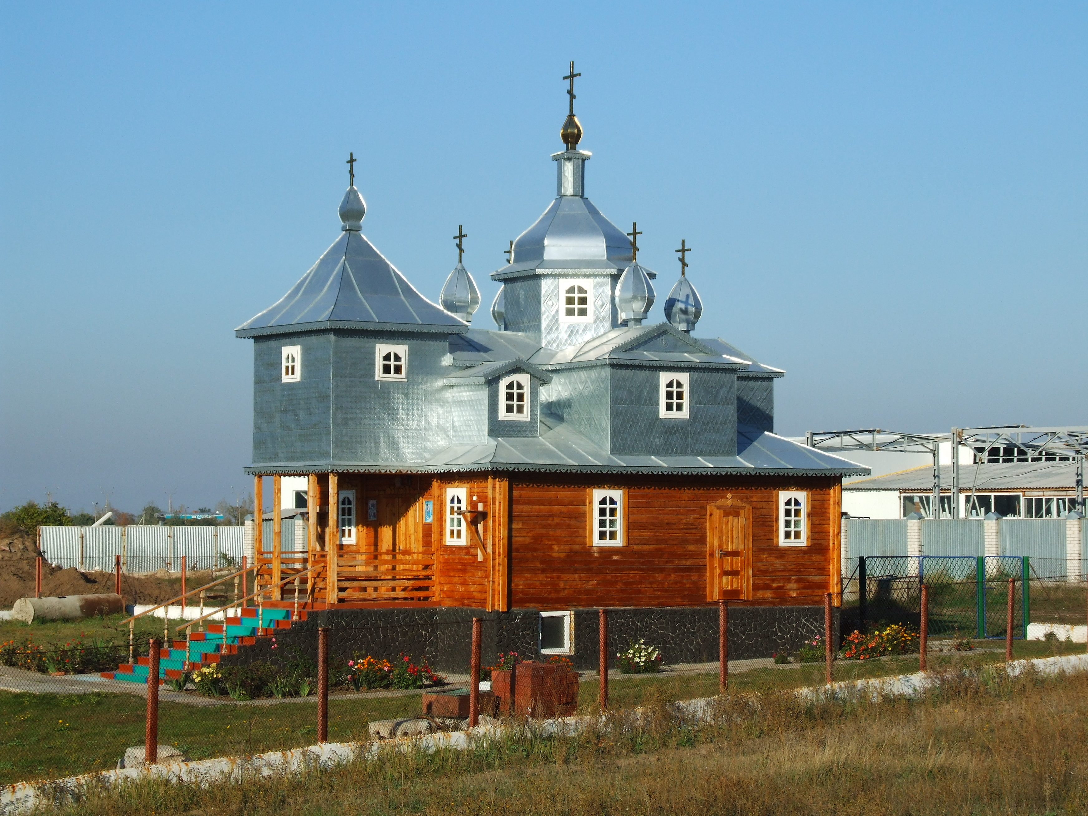 Church of Saint Protection of the Mother of God (Ukrainian Orthodox Church (Kiev Patriarchate)) in city of Yuzhne (Khimikiv (Chemists) street), Odessa Oblast, Ukraine